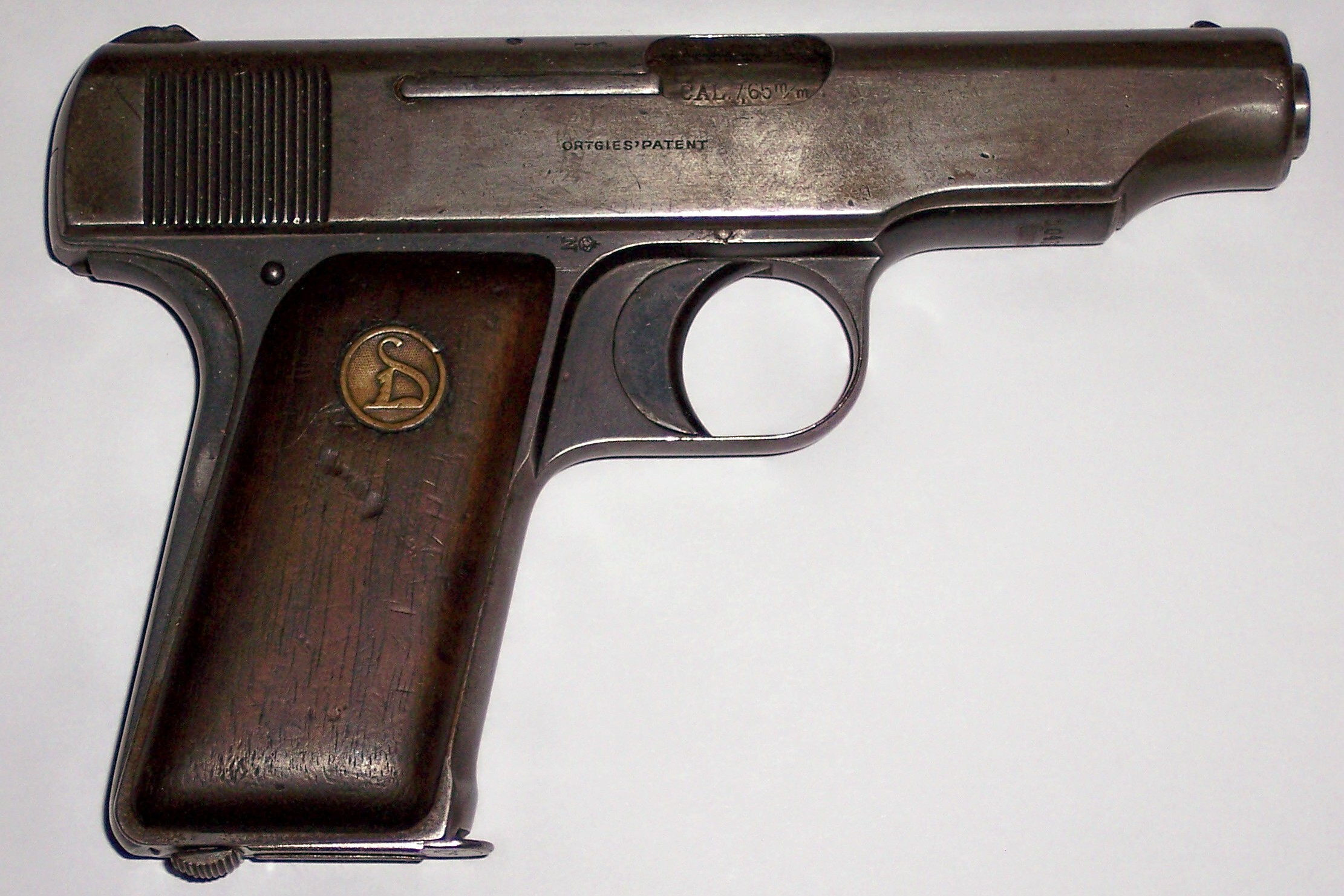 Right view, Ortgies 7.65mm pistol